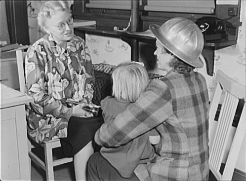 War workers' nursery. Mrs. Arlene Corbin (right), time checker in a Richmond, California shipyard brings two-and-a-half-year-old Arlene to a nursery school every morning before going home to sleep. Mrs. Corbin works on the midnight to 7:30 a.m. shift and relies upon the school to keep her daughter busy and happy during the day.